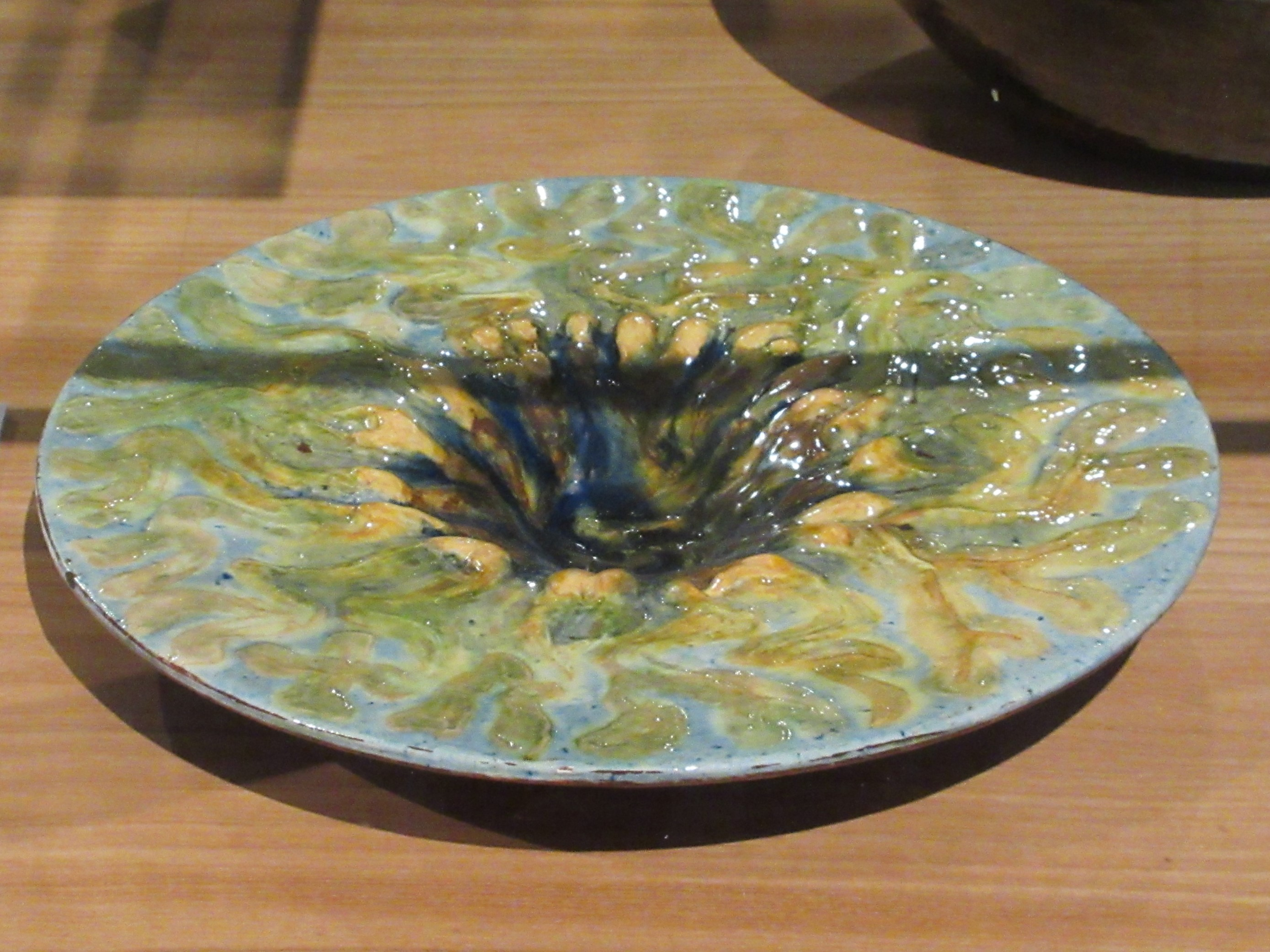 Dish designed with yellow bladderwrack decoration from 1887 designed by Elise Konstantin-Hansen and produced at J. Wallmanns Lervarefabrik. Danish Design Museum, 2018.